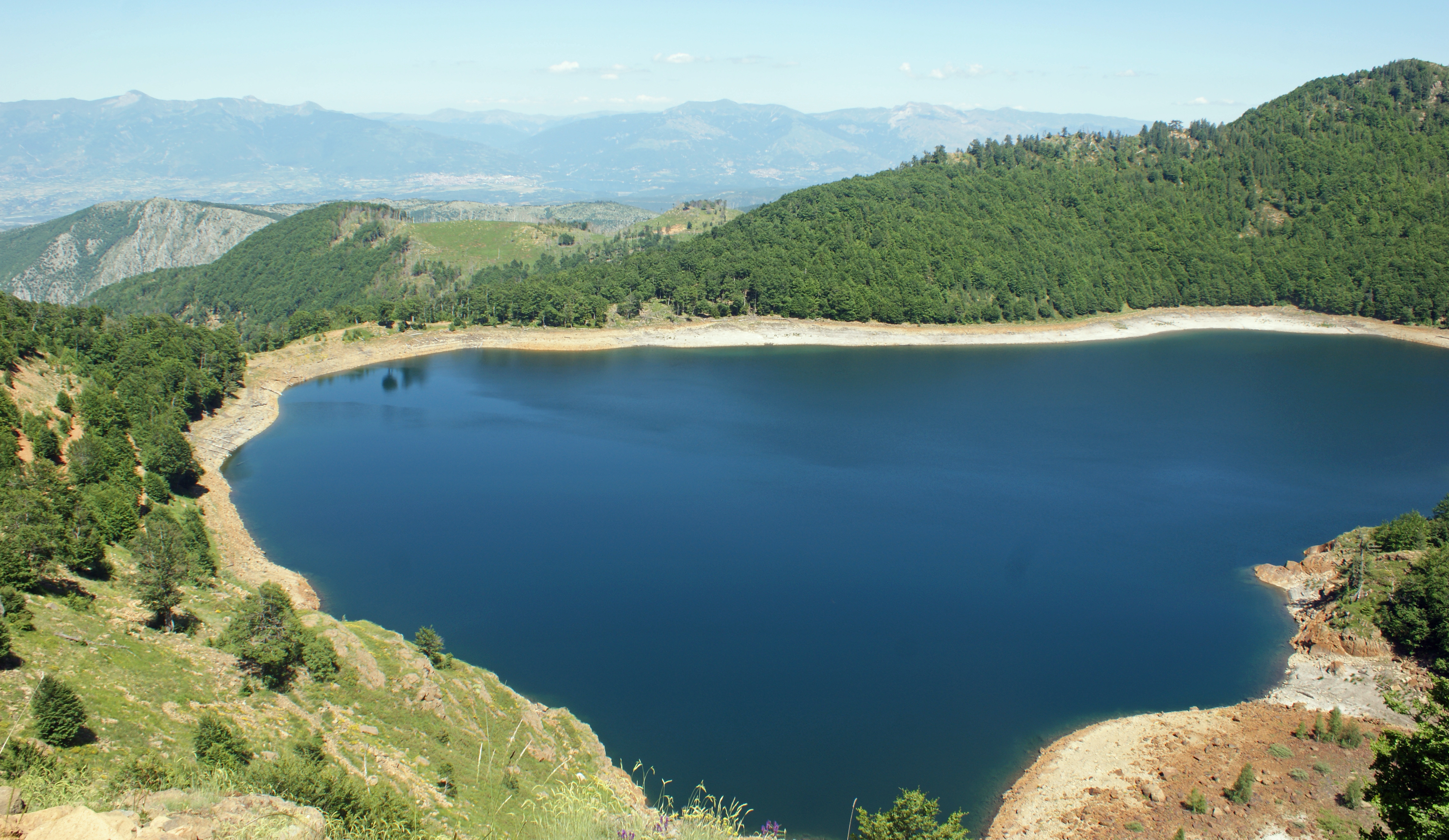 Liqen i Zi, Bulqiza, Albania